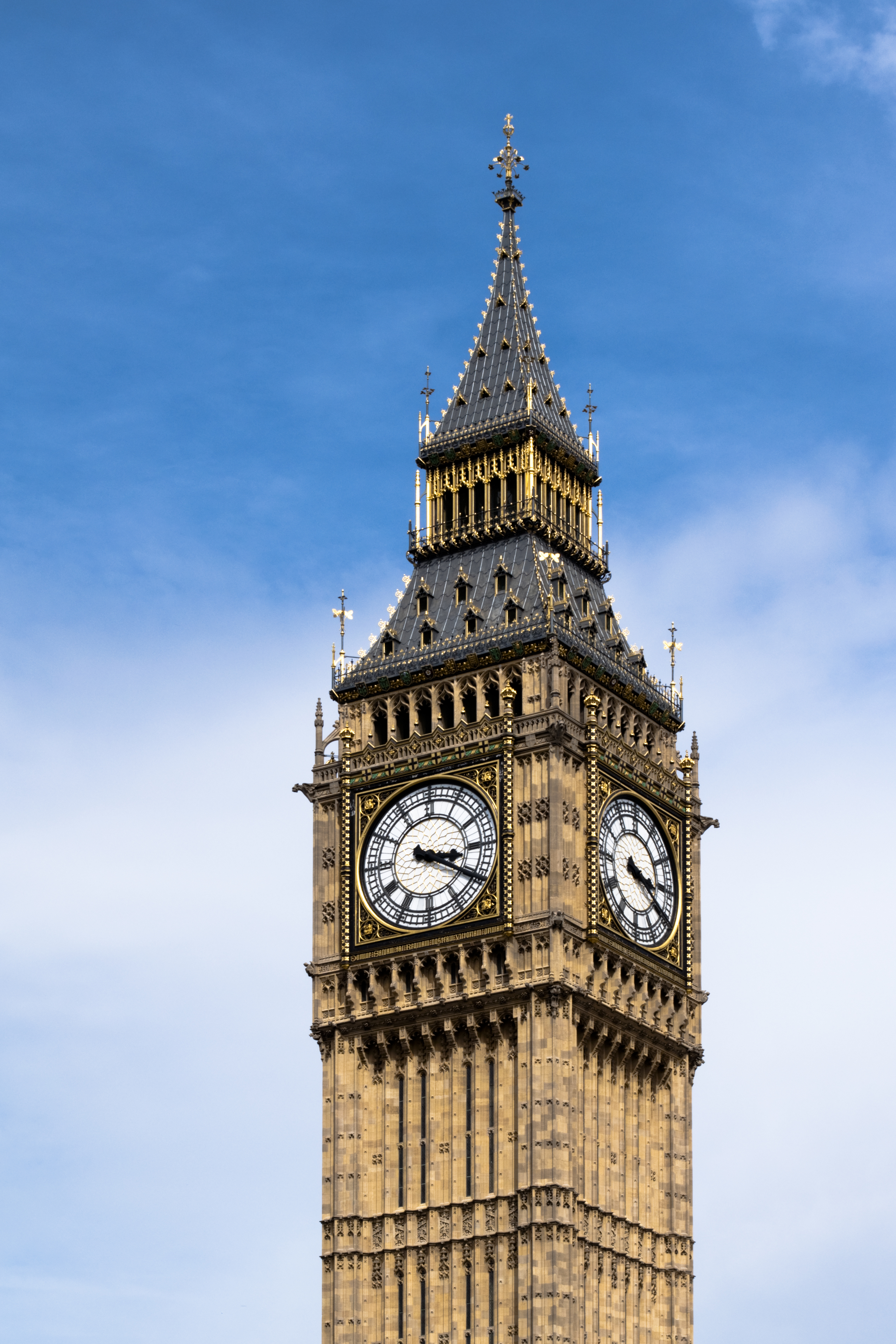 Close-up photograph of Big Ben clock tower, London, England.